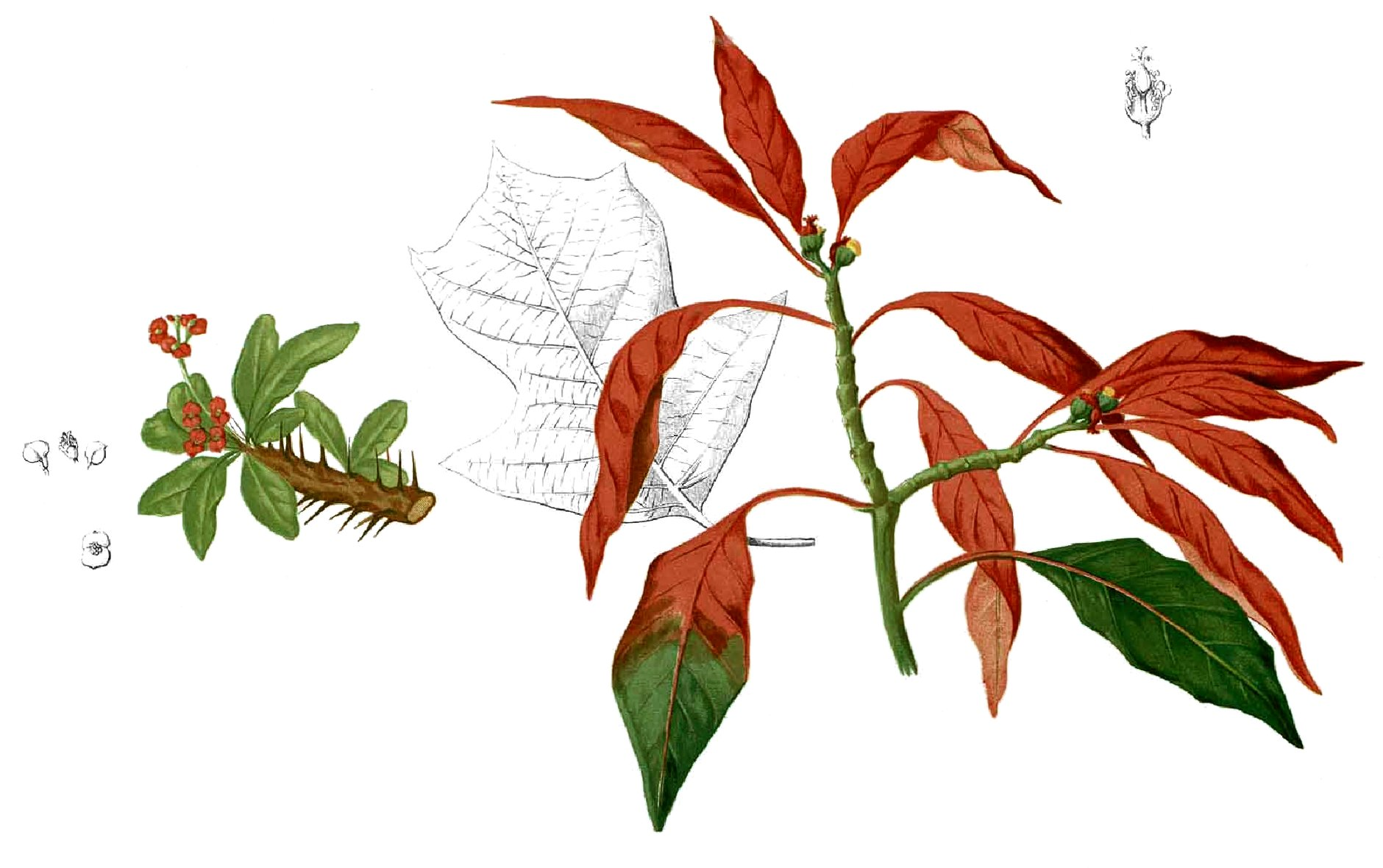 Plate from book